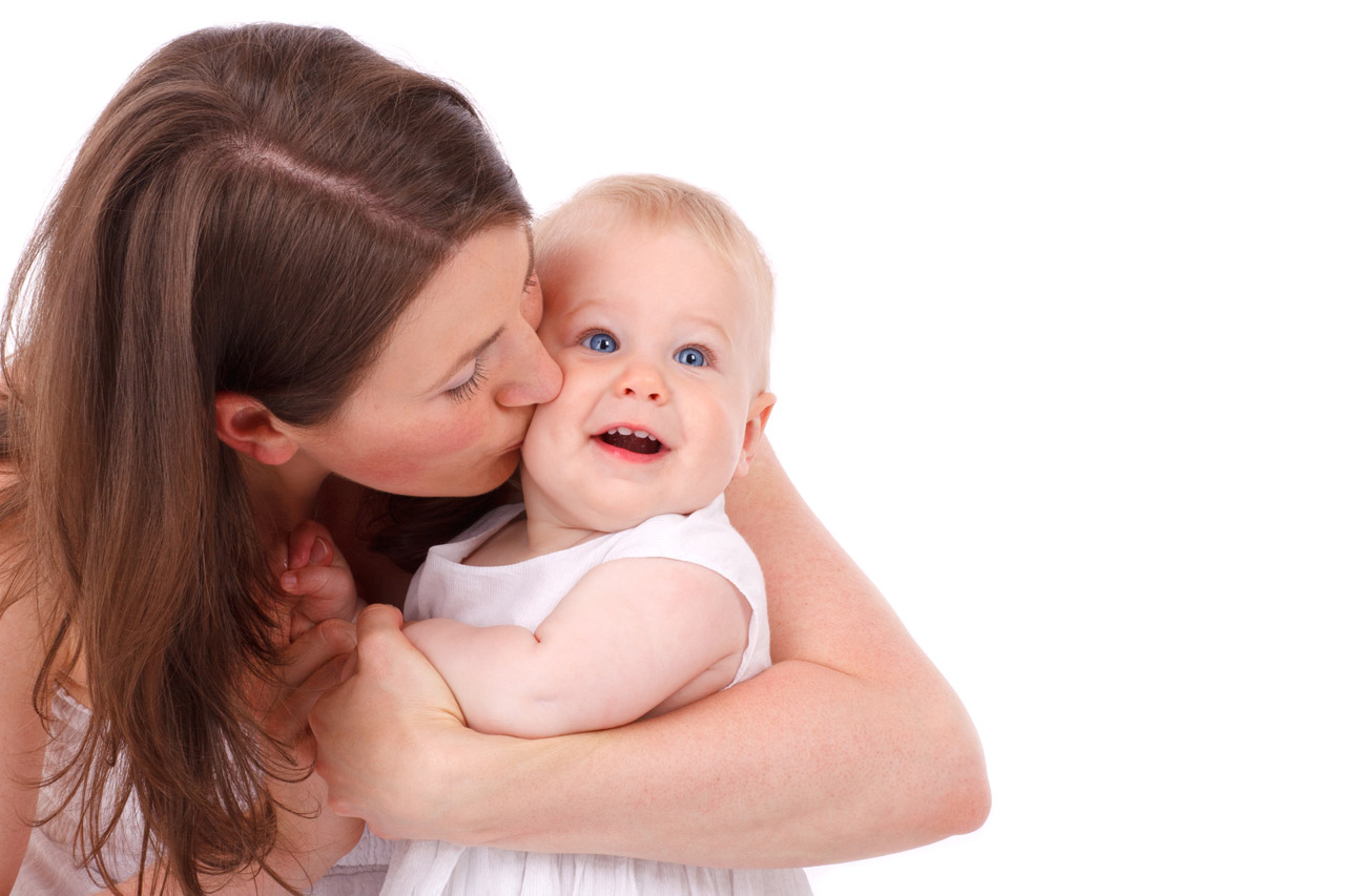 mother kissing her baby daughter isolated on white background